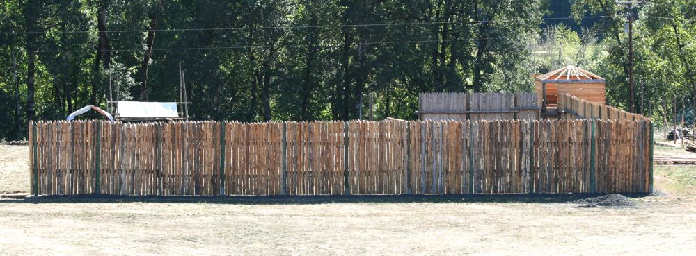 Fort Umpqua reproduction in progress. Near Elkton, Douglas County, Oregon